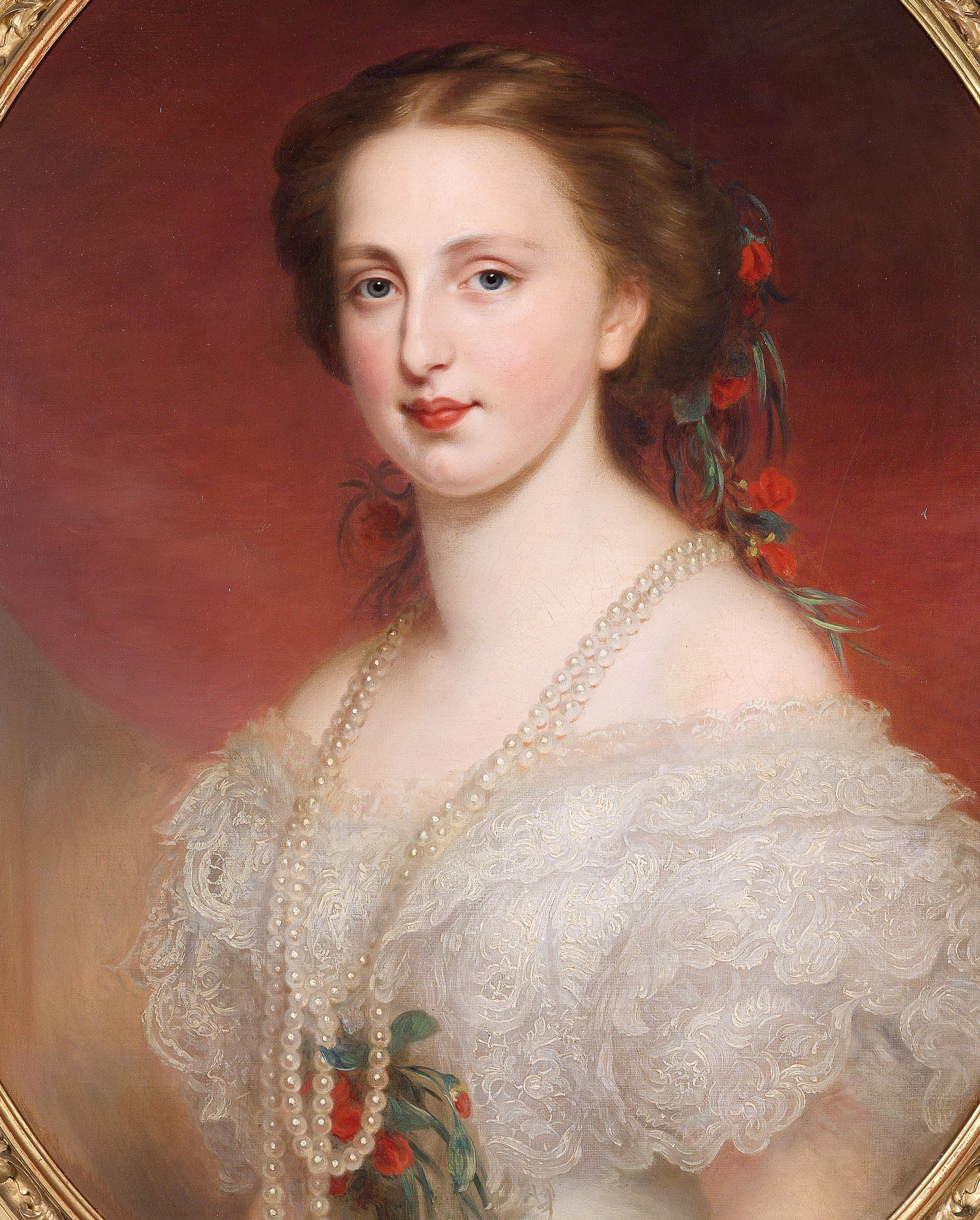 Royal princess Margarethe Caroline of Saxonia, 1840-1858, first wife of Archduke Karl Ludwig of Austrialabel QS:Lde,"Königliche Herzogin Margarethe Caroline von Sachsen, 1840-1858, erste Frau von Erzherzog Karl Ludwig von Österreich. [1]"label QS:Len,"Royal princess Margarethe Caroline of Saxonia, 1840-1858, first wife of Archduke Karl Ludwig of Austria"